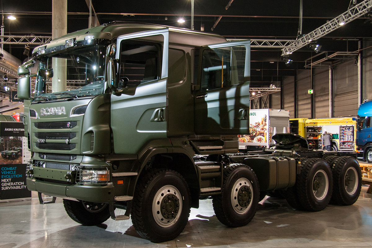 Scania R 730 CA8x8EHZ CR31 CrewCab at the Transport 2011 fair at Norway Trade Fairs, Lillestrøm.